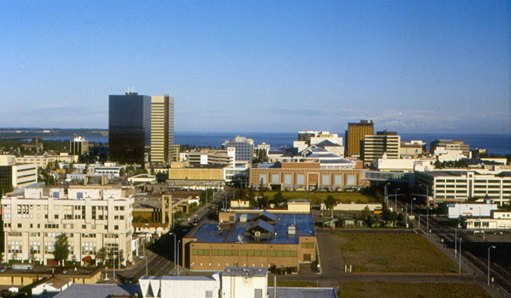 The main business district of Anchorage, looking west from the Sheraton Hotel. The two large buildings on the left are oil company headquarters.